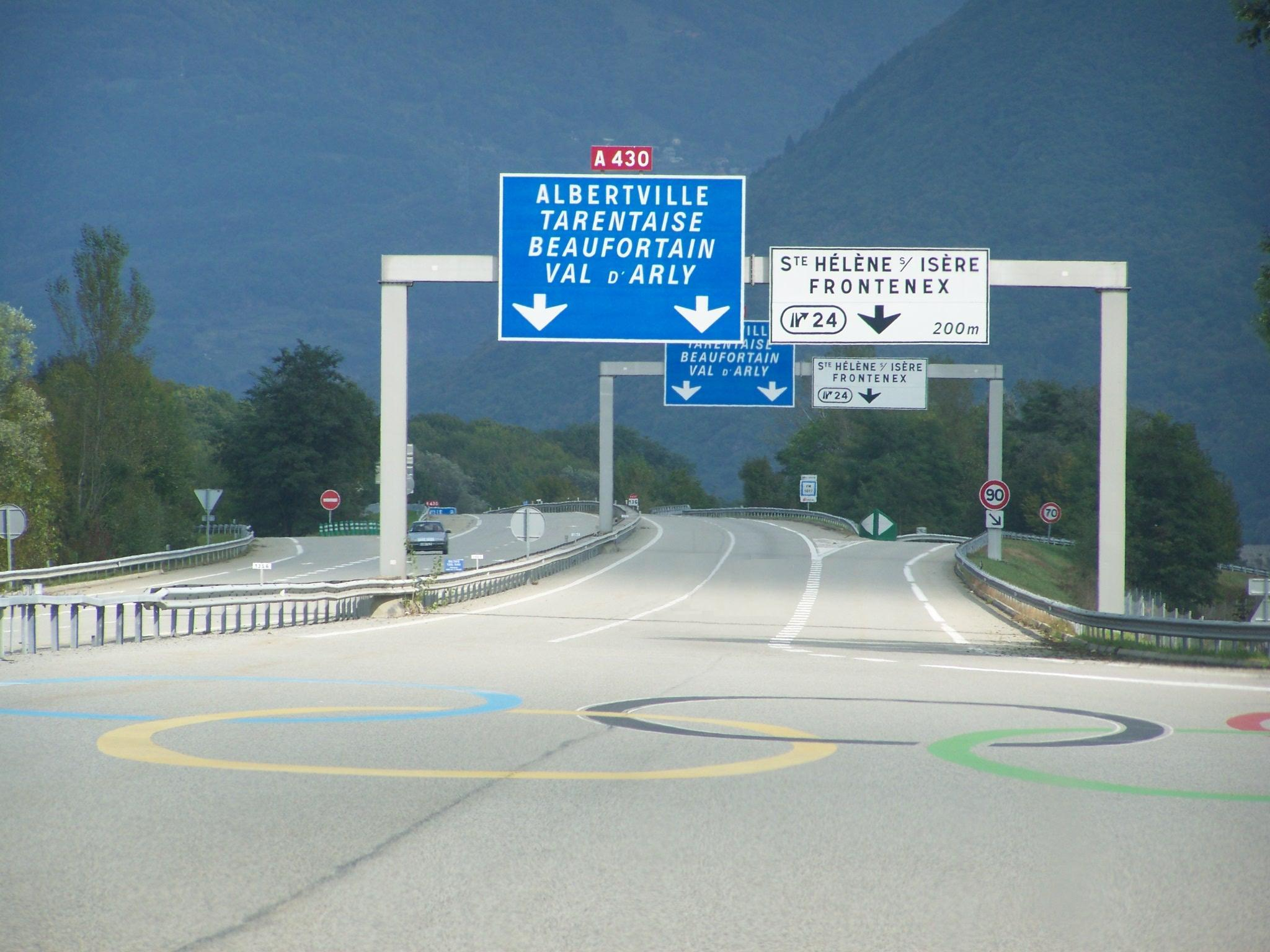 French A430 motorway to Albertville in Savoie, host of the Winter Olympic Games of 1992.